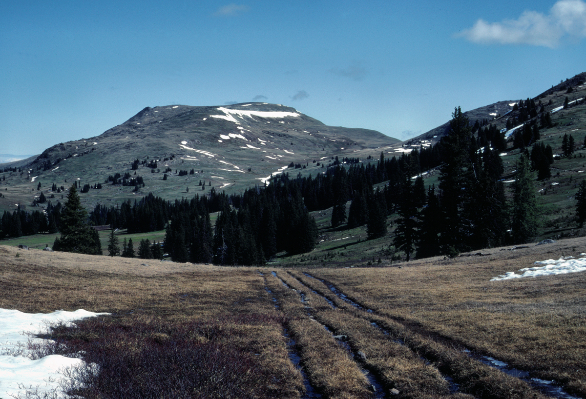 This is the view from Sunny Pass, at the edge of Horseshoe Basin, 8100 foot Armstrong Peak rising in the distance. The ruts are the remnants of the old Tungsten Mine Road which provided access to the Tungsten Mine, about 17 miles to the west, which was active into the 1950's. At this point, the old road veers off to the left, while the Boundary Trail goes off to the right, traversing under Armstrong peak. The Trail continues about 50 miles to the West, along the US-Canadian border until it meets the Cascade Crest trail, well north of Hart's Pass.